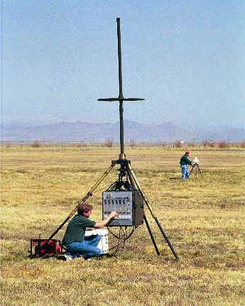 Joint Precision Approach and Landing System (JPALS) Tactical Prototype